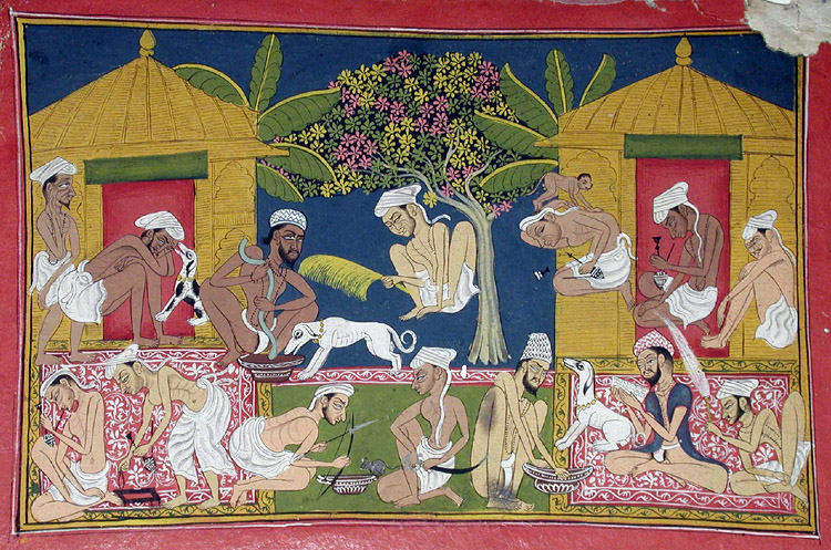 Display Artist: Pemji Creation Date: ca. 1790 Display Dimensions: 8 1/16 in. x 11 7/8 in. (20.5 cm x 30.2 cm) Credit Line: Edwin Binney 3rd Collection Accession Number: 1990.642 Collection: The San Diego Museum of Art